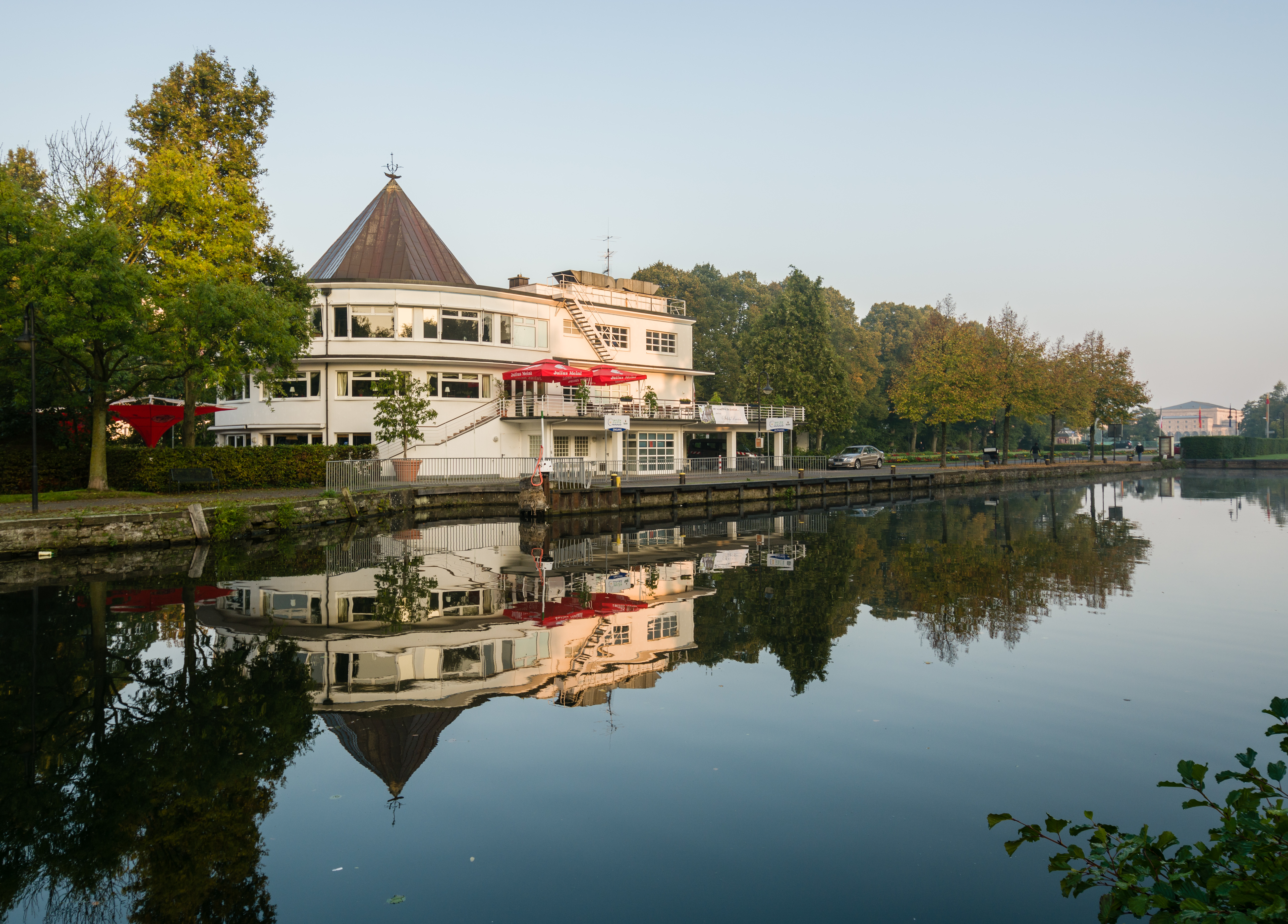 Wasserbahnhof in Mülheim, photographed at morning light